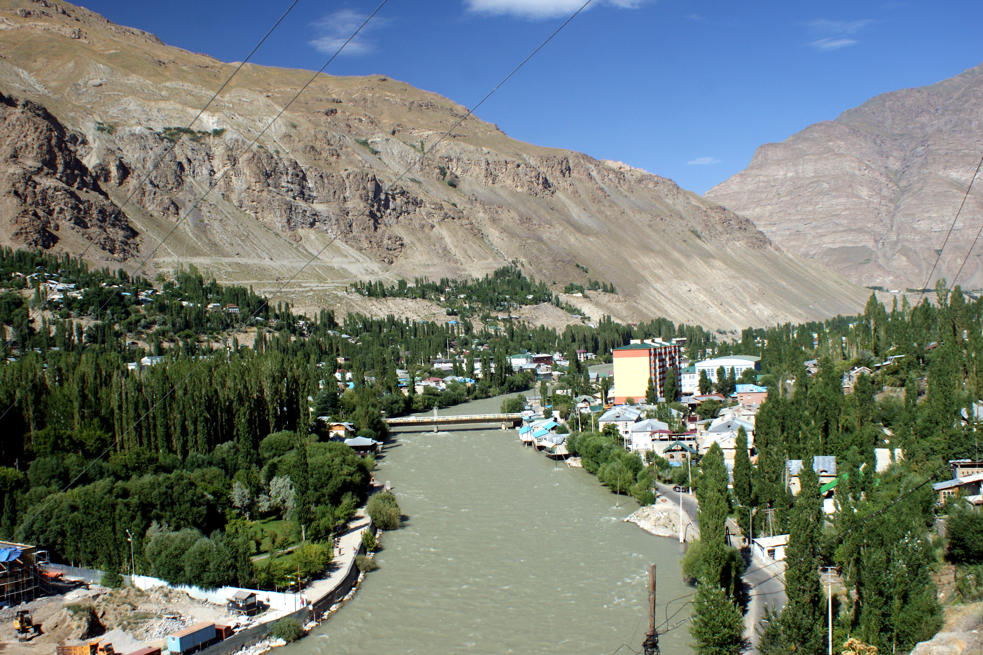 see geotag